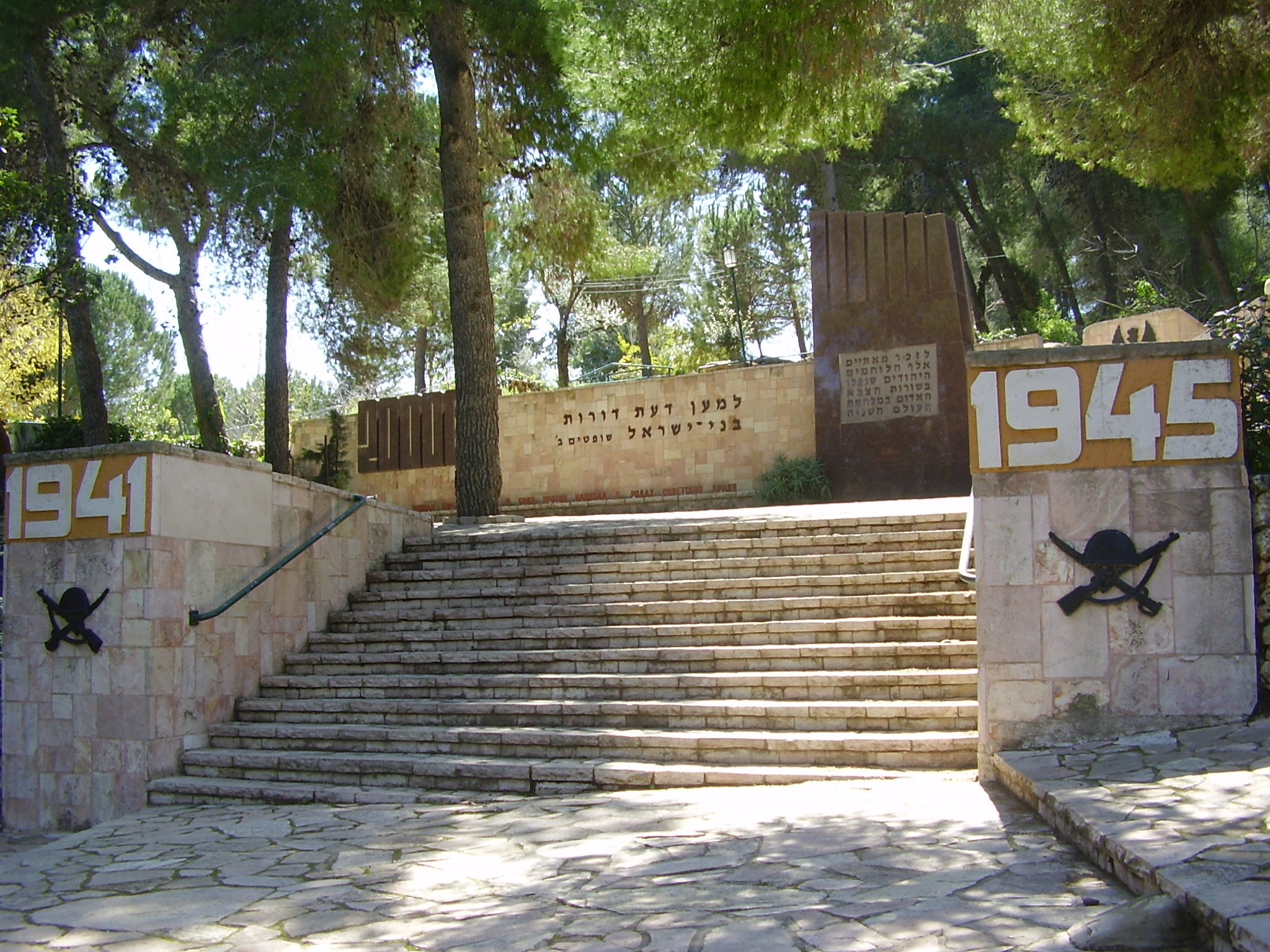 Jerusalem, Mount Herzl - monument to jewish soldiers in the red army who fell during second world war